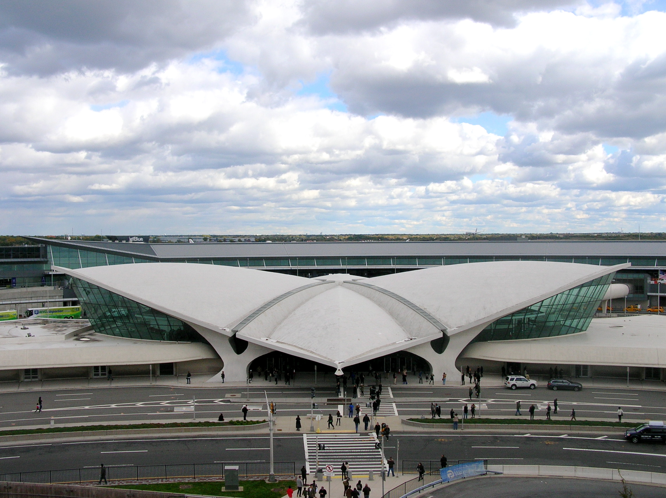 OHNY TWA Flight Center